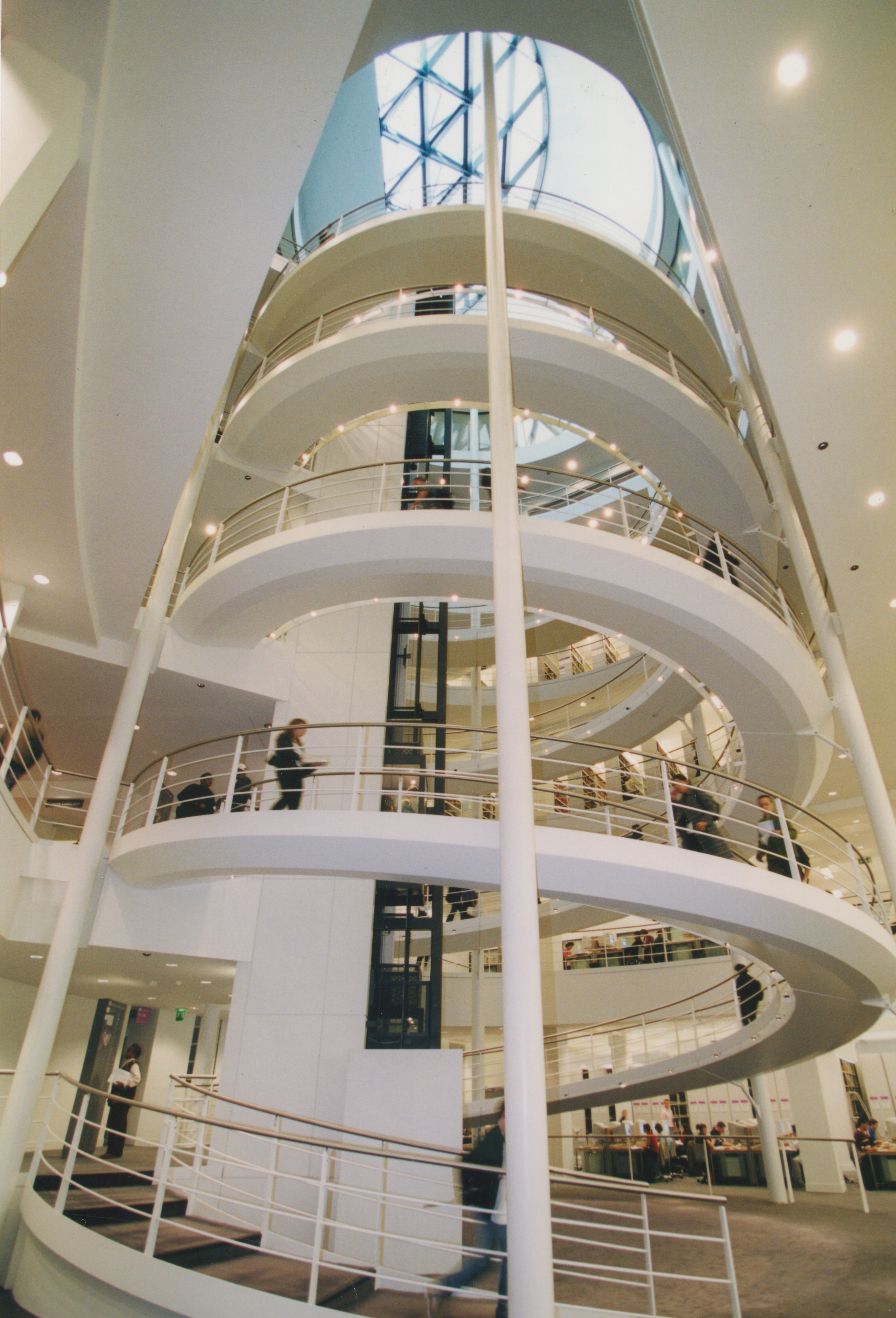 Library of the London School of Economics and Political Science .In newly redeveloped library, Lionel Robbins Building . Image: IMAGELIBRARY/1088